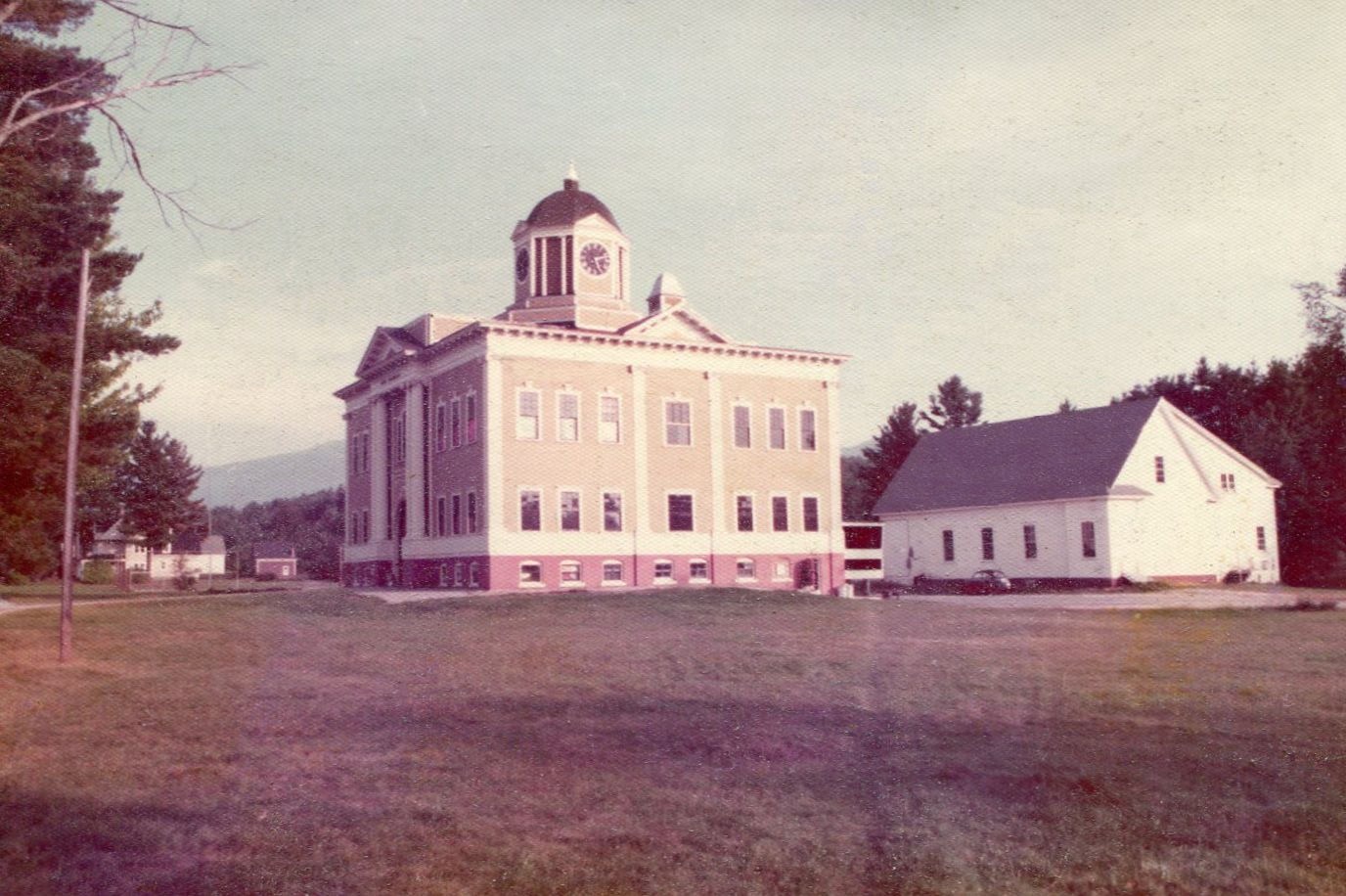 Dow Academy with Dance Studio/Gym as part of Franconia College. Studio moved. Both buildings in 2018 are condiminiums.